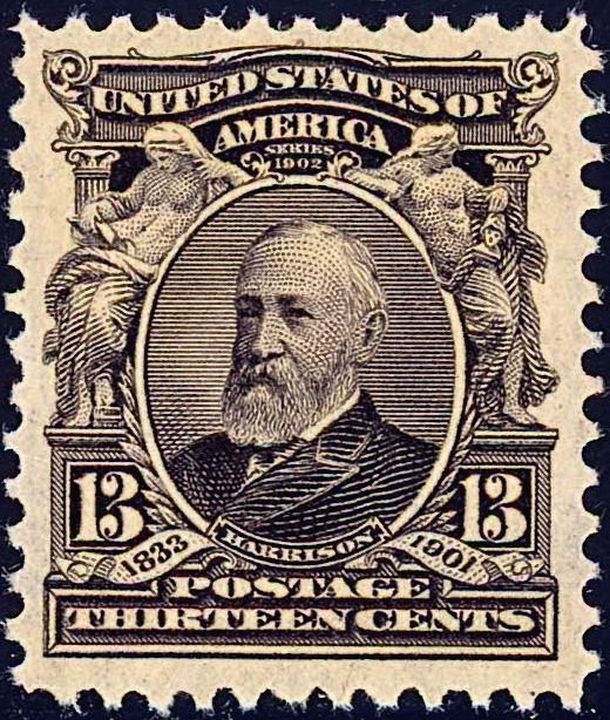 US Postage stamp: Benjamin Harrison, Issue of 1903, 13c